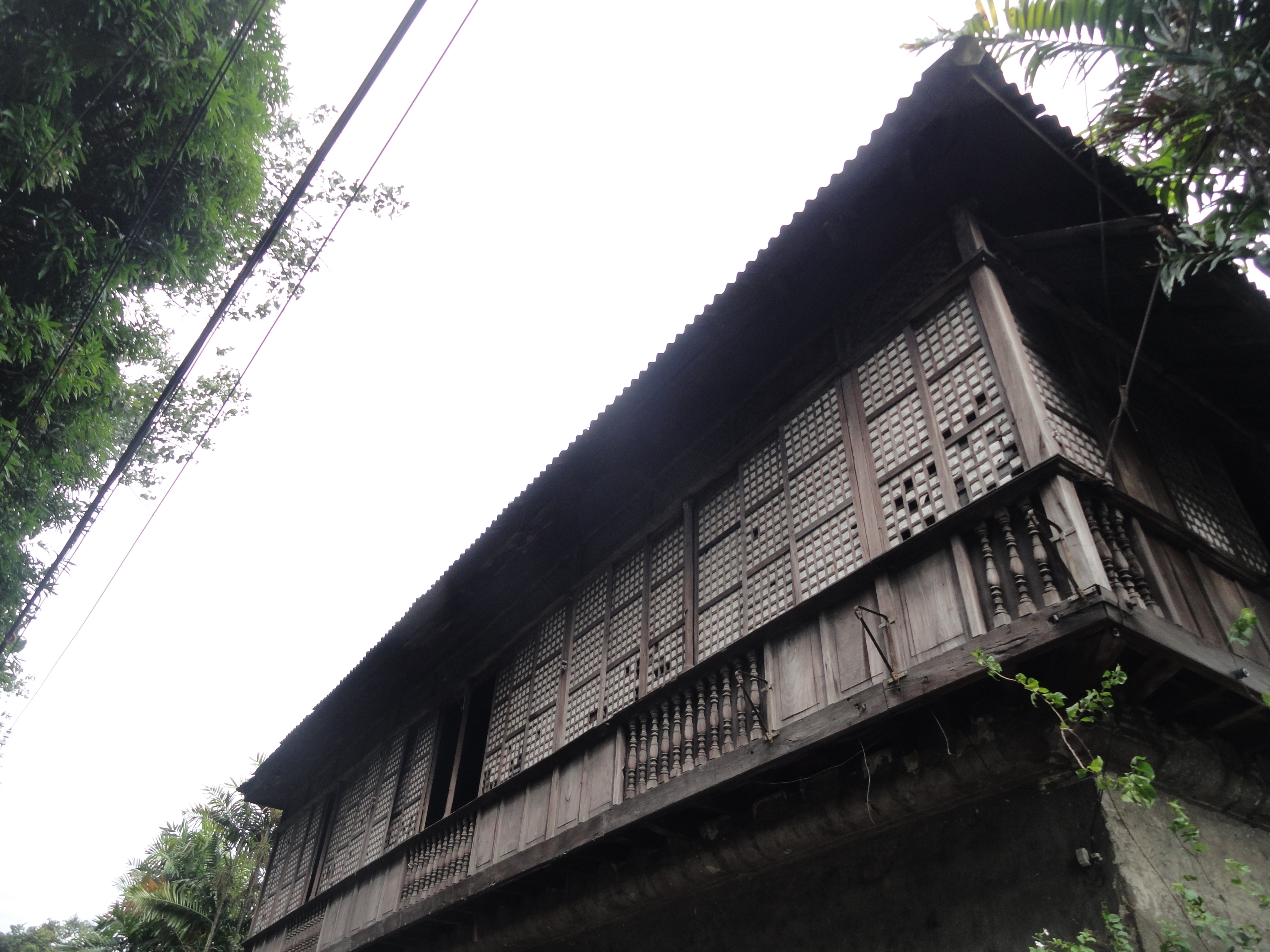 Pasig City